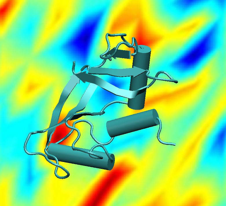 Preservatives like sugar surround and protect complex molecules (foreground), but varying degrees of movement within the preservativesymbolized by the different colors in the backgroundare a major contributor to spoilage. Recent NIST findings concerning the fundamental behavior of mixtures (such as the combination above) could dramatically extend the shelf lives of vaccines and other biological materials. Credit: NIST Disclaimer: Any mention of commercial products within NIST web pages is for information only; it does not imply recommendation or endorsement by NIST. Use of NIST Information: These World Wide Web pages are provided as a public service by the National Institute of Standards and Technology (NIST). With the exception of material marked as copyrighted, information presented on these pages is considered public information and may be distributed or copied. Use of appropriate byline/photo/image credits is requested.